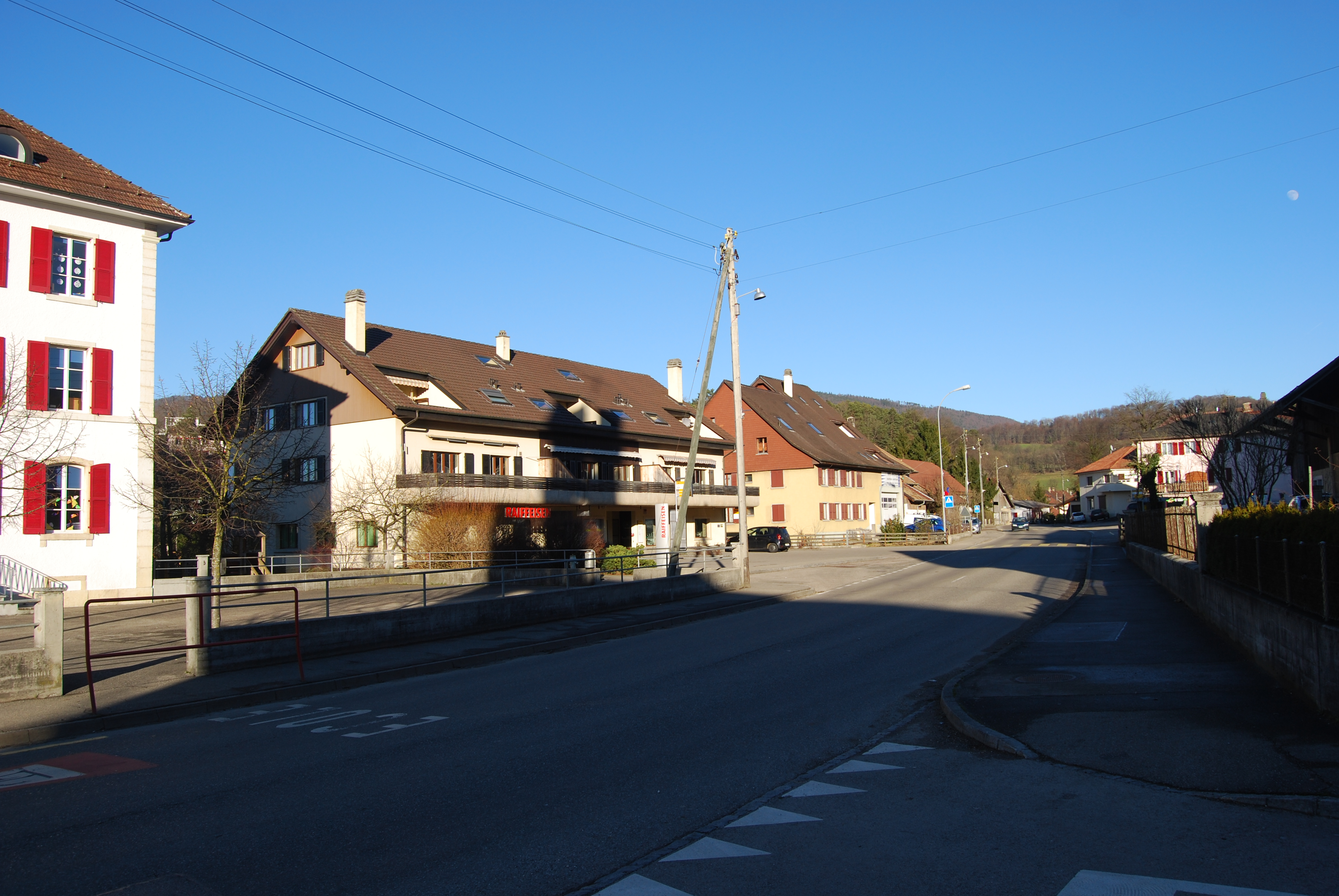 Vicques, canton of Jura, Switzerland